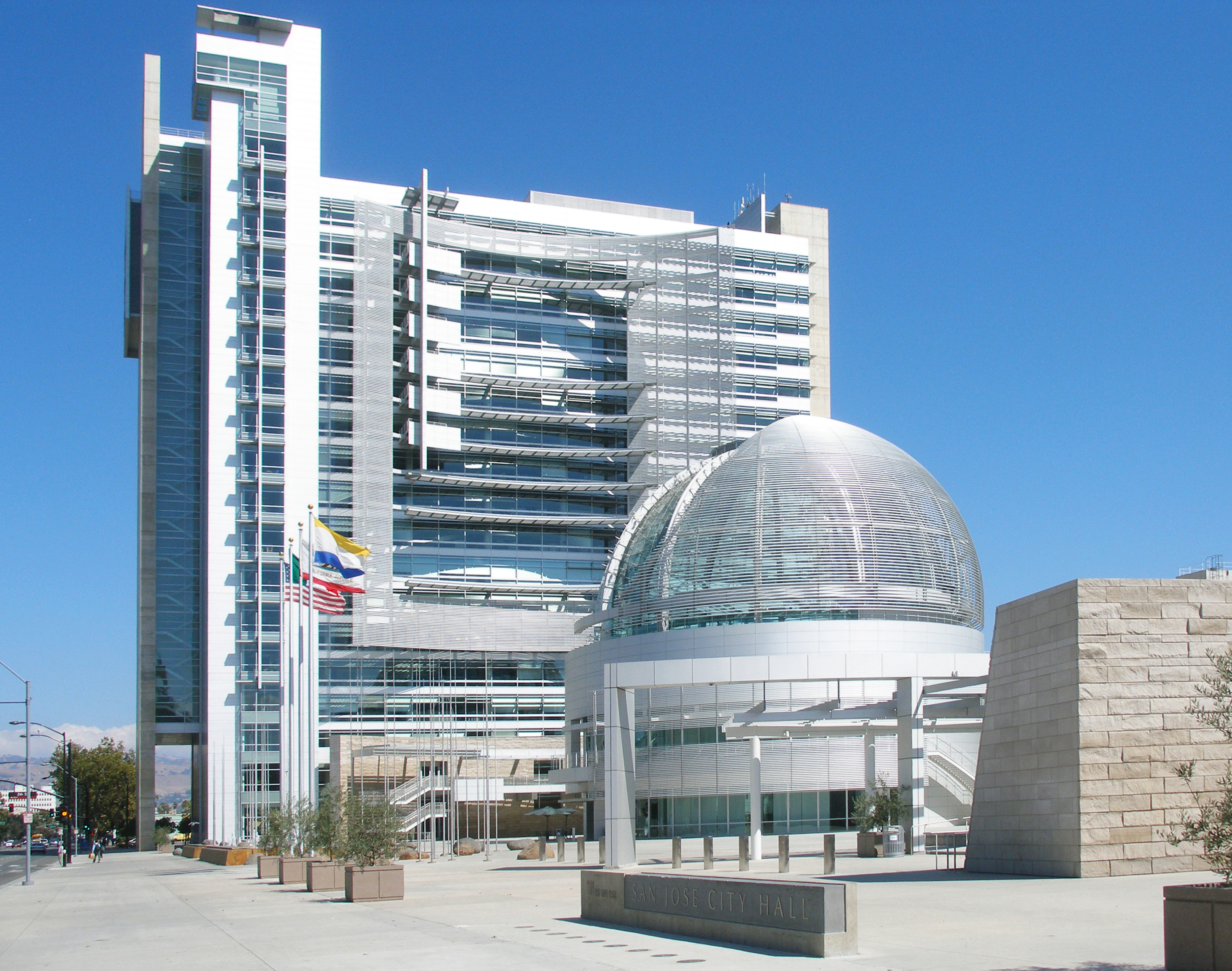 The new City Hall of San Jose. The perspective is west down East Santa Clara Street towards Fifth Street. The image above was photographed by user Coolcaesar on September 22, 2007. (The former version of this photo, see file history, was also photographed by user Coolcaesar on April 29, 2006.)